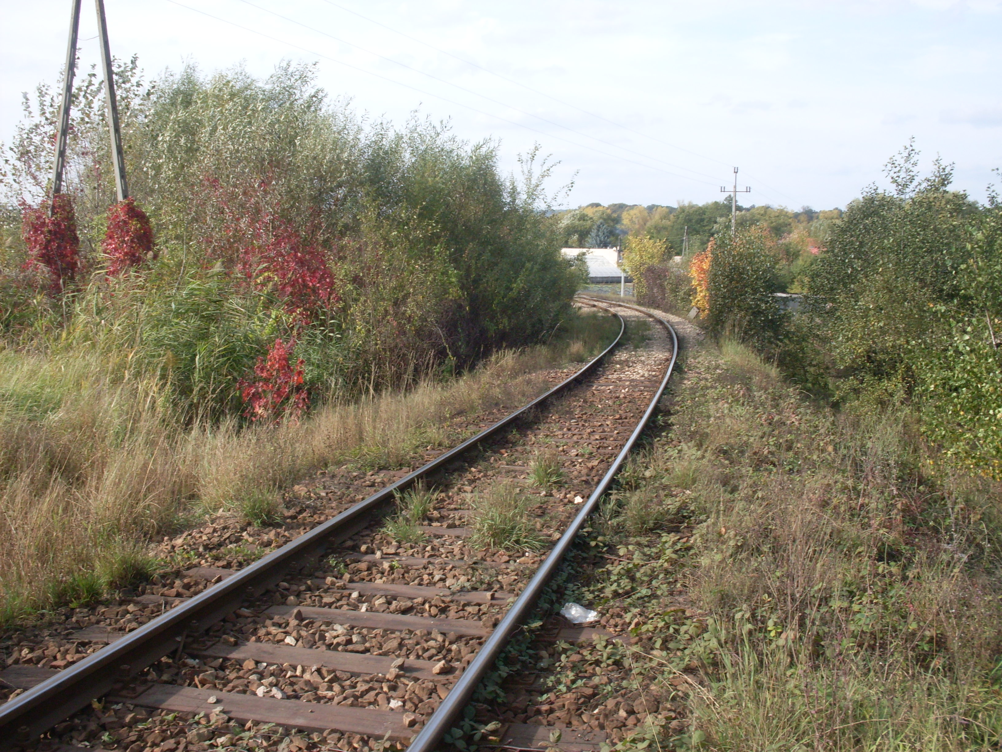 Bocznica koleowa Krzeszowice-Zalas oraz okolice wylotu sztolni z KW Kmita. Tenczynek (Rzeczki)